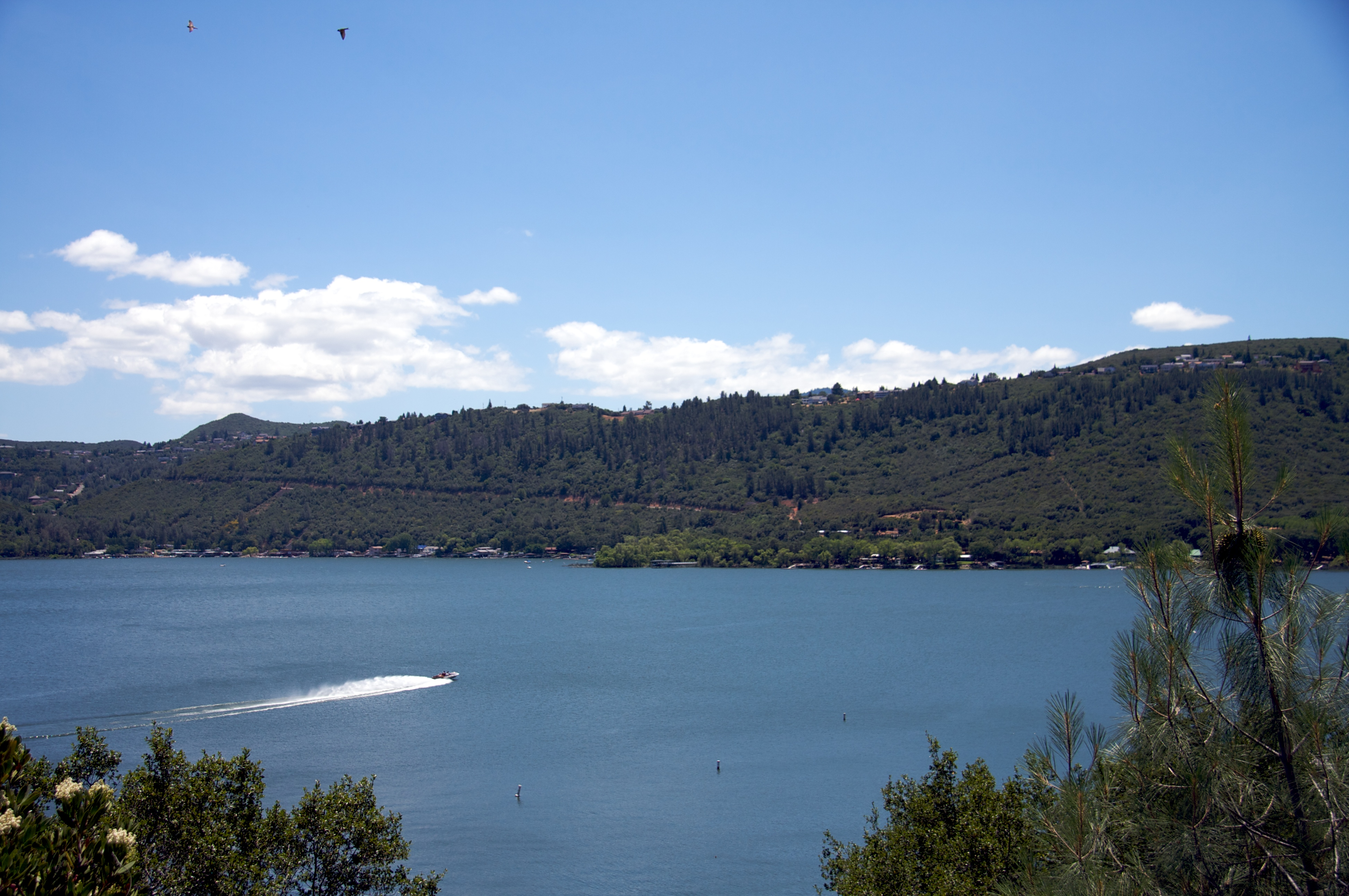 Clear Lake, in Lake County, northern California.